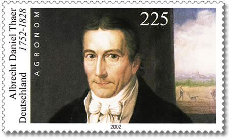 Stamp from Deutsche Post AG from 2002, 250th anniversary of Albrecht Daniel Thaer